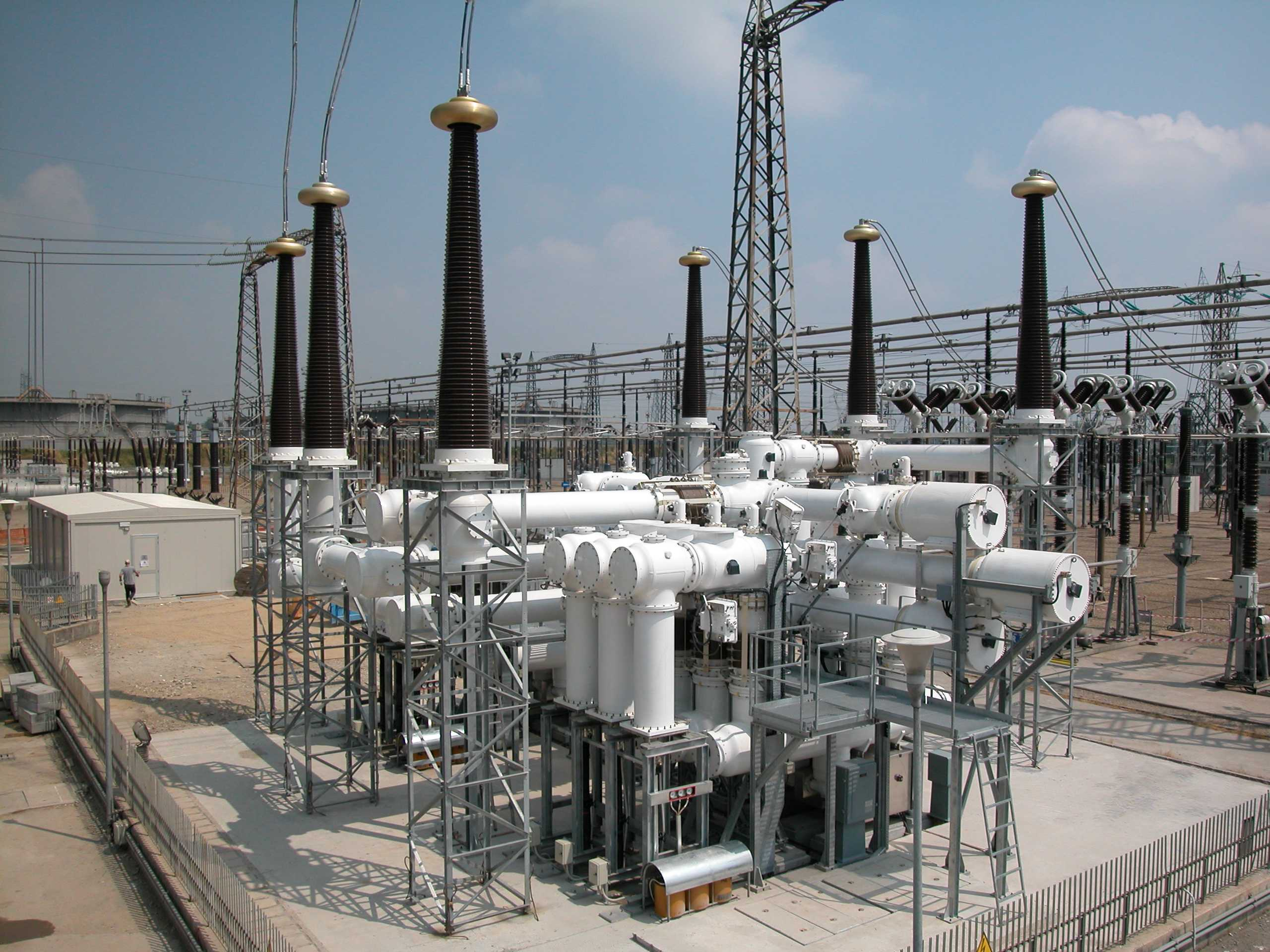 Sulfur hexafluoride gas circuit breakers in a 420 kV switchyard